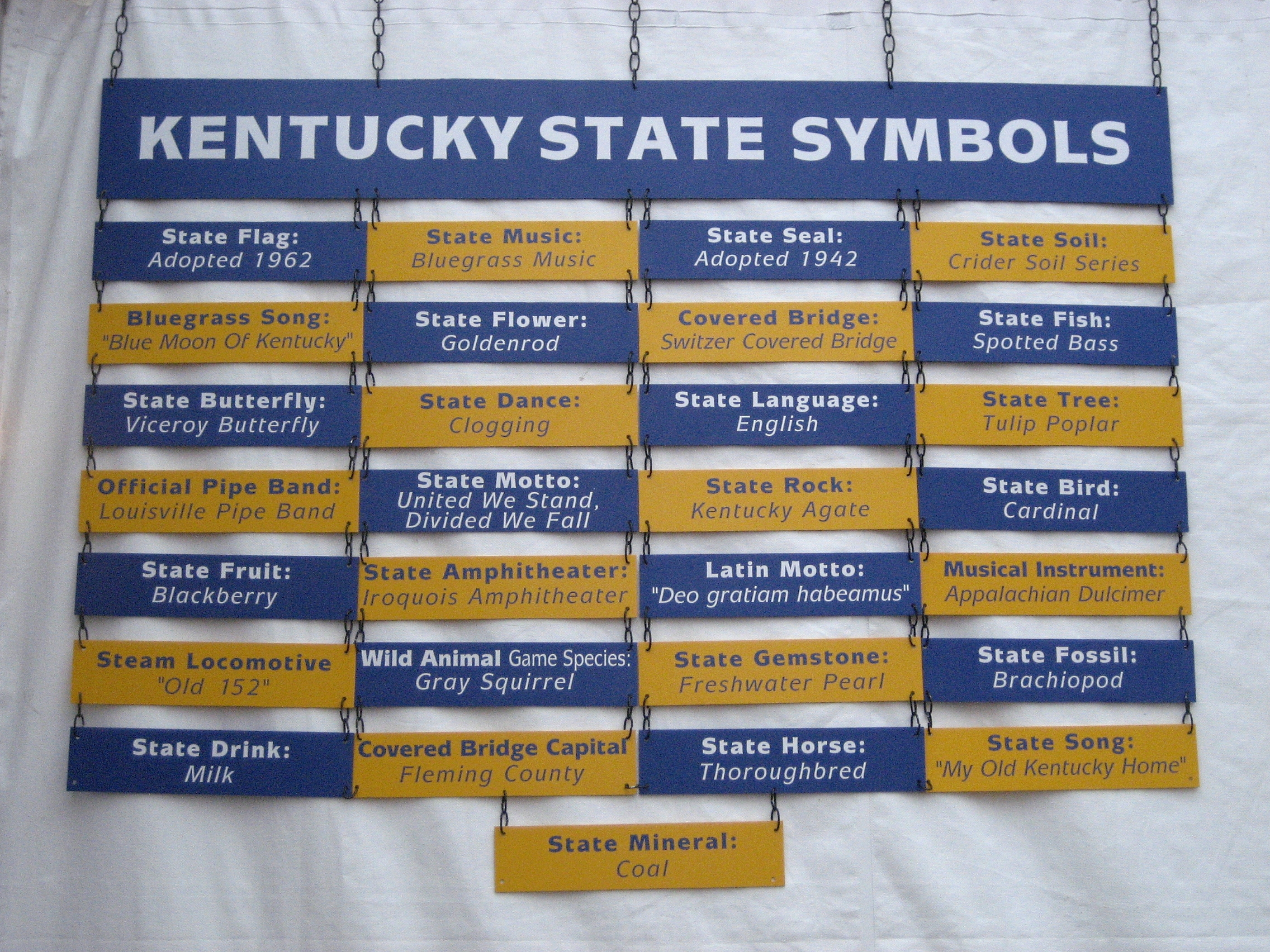 I was charged with learning most of these at Pepperhill Farm & Day Camp in Jessamine County, Kentucky for many years while growing up. Some of the state symbols, however, were new to me, like the state fossil (brachiopod?) and the state drink (milk -- shouldn't that be the mint julep?).